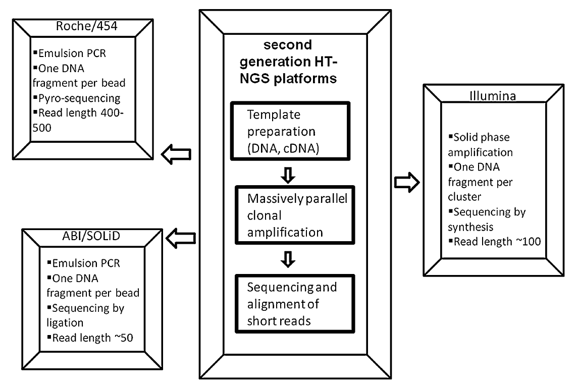 This image was taken from the journal titled: "Sequencing technologies and genome sequencing" It shows the 2nd Generation of Sequencing Technology and the Biology behind it